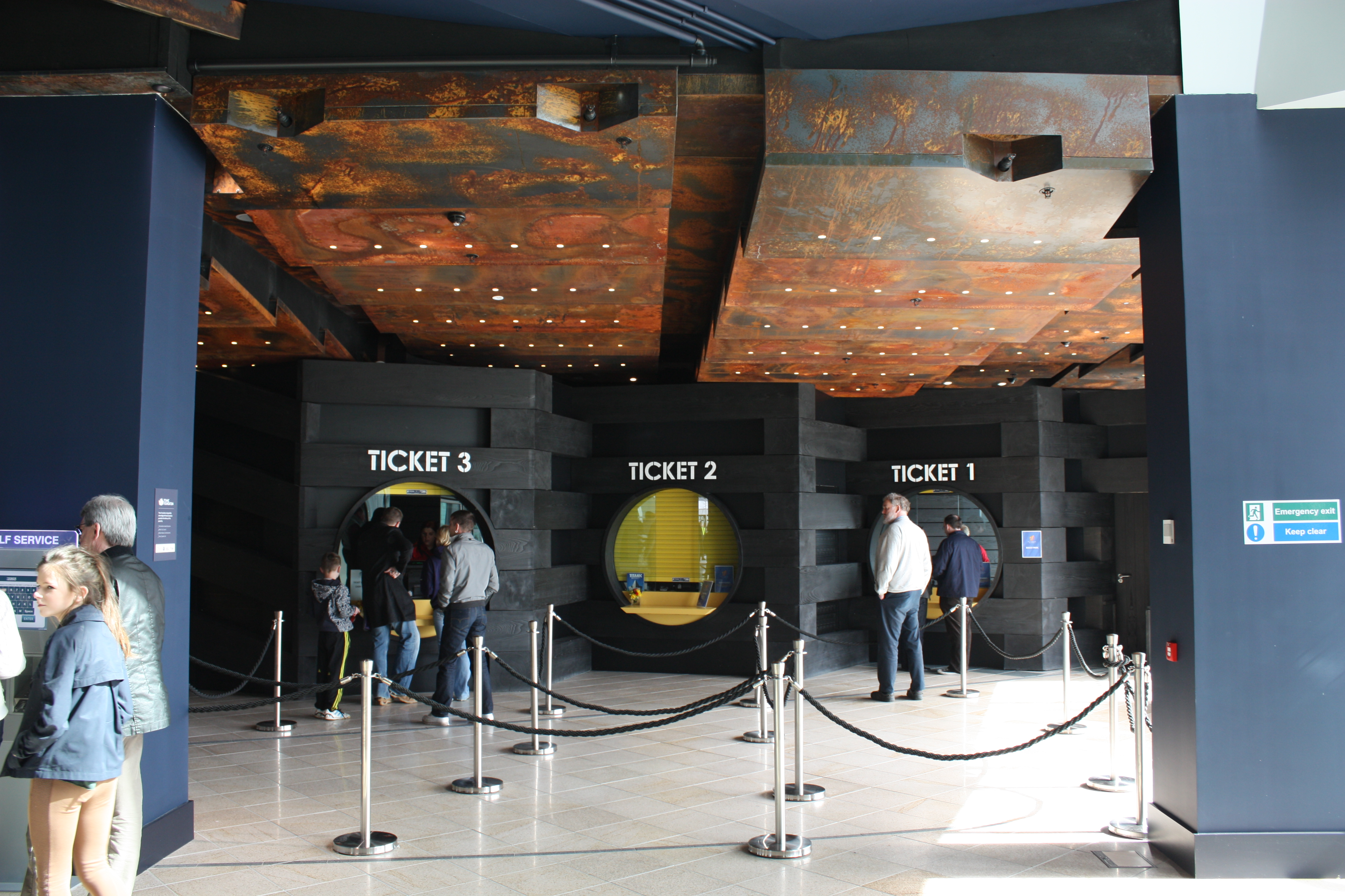 Opening Day at Titanic Belfast, Titanic Quarter, Queen's Road, Belfast, Northern Ireland, 31 March 2012